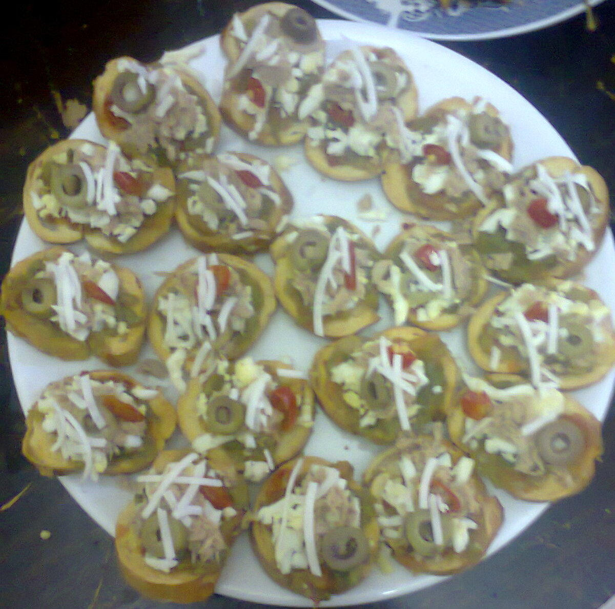 Salad Blankit of Tunisia This is an image of food from Tunisia